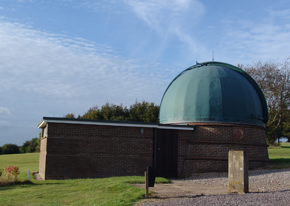 Image of the Blackett Observatory at Marlborough College, Wiltshire